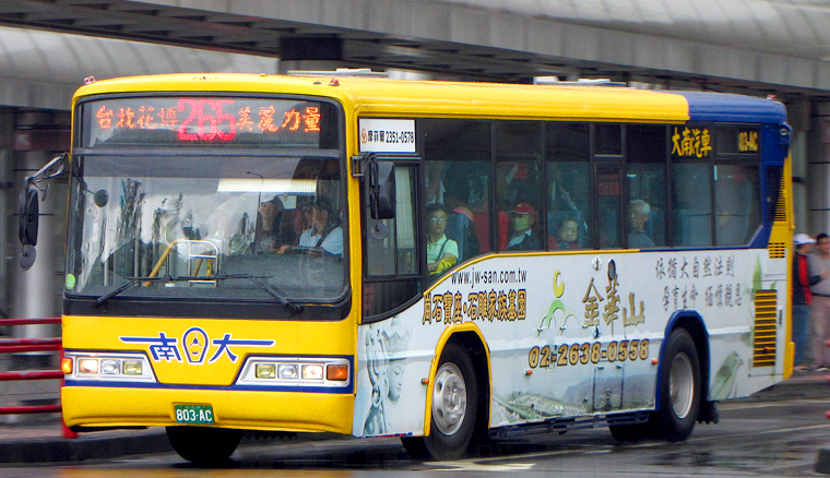 Danan Bus 803-AC, 2004 HINO ERK2JML